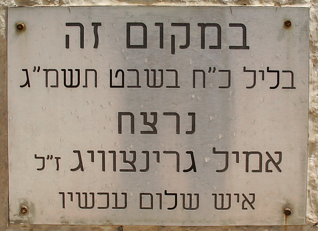 emil grunzweig memorial in jerusalem at the place where he was murdered